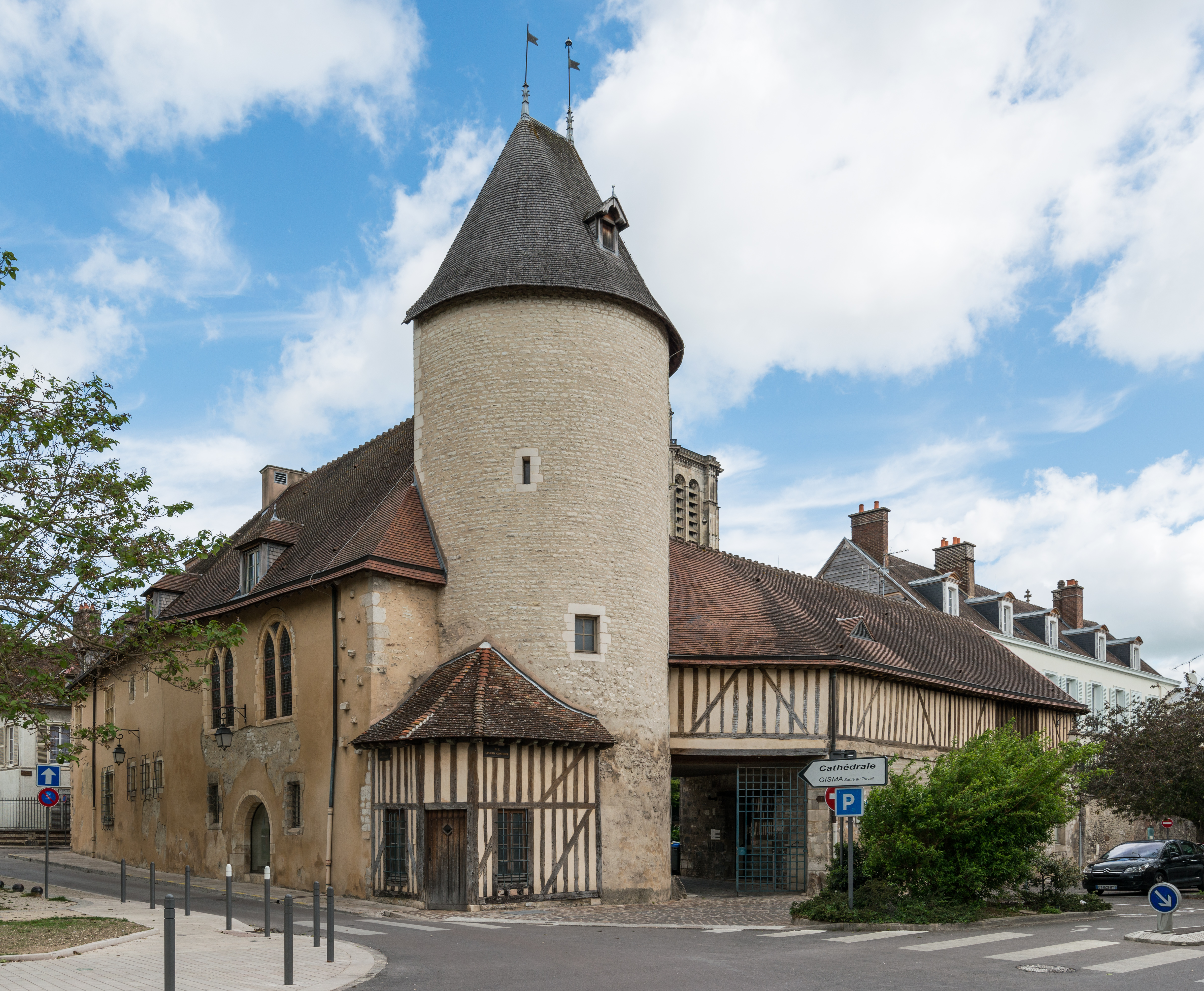 The Hôtel de Petit Louvre in Troyes, a notable building of the city as seen from south